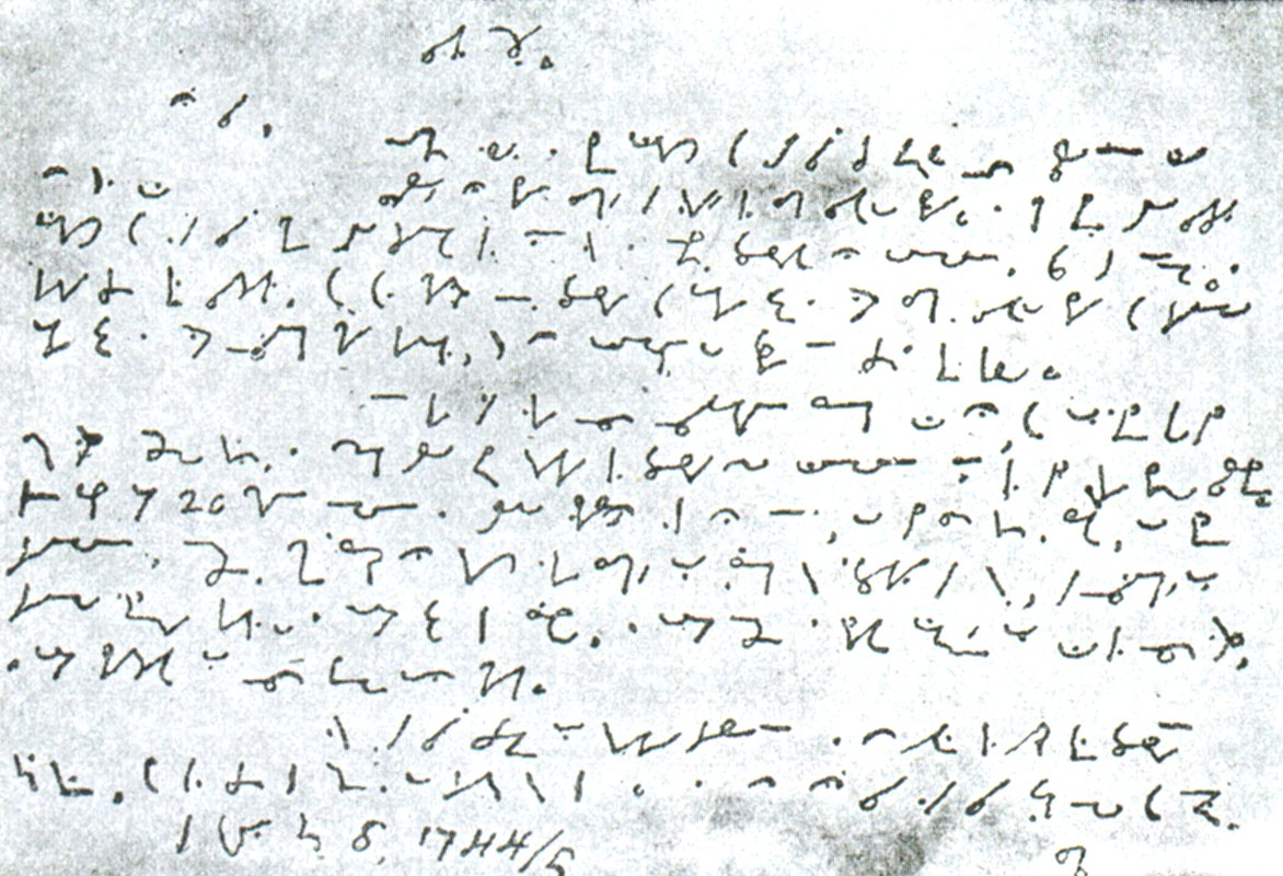 John Wesley's writing in John Byrom's shorthand system.